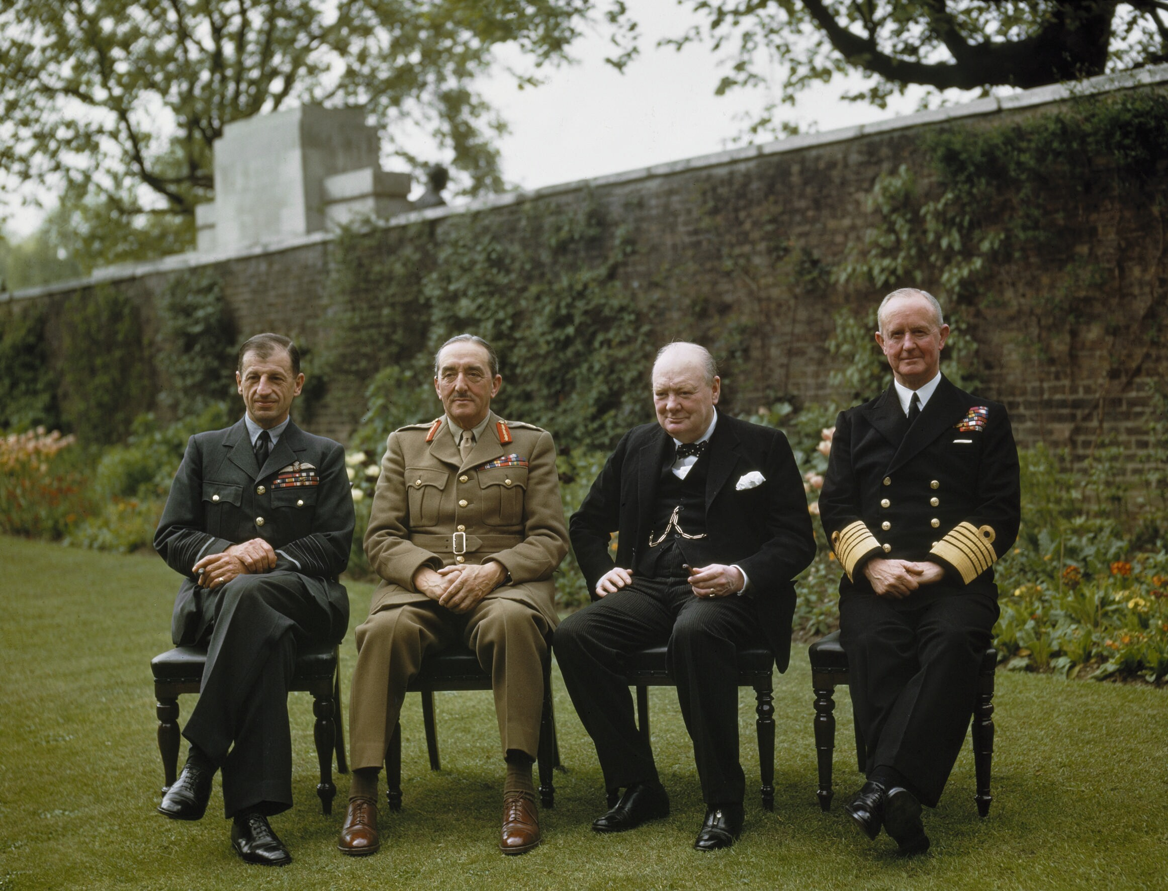 The Prime Minister, the Rt Hon Winston Churchill, With His Chiefs of Staff in the Garden of No 10 Downing Street, London, 7 May 1945 Left to right: Marshal of the Royal Air Force Sir Charles Portal; Field Marshal Sir Alan Brooke; Winston Churchill, the Prime Minister; and Admiral of the Fleet Sir Andrew Cunningham.